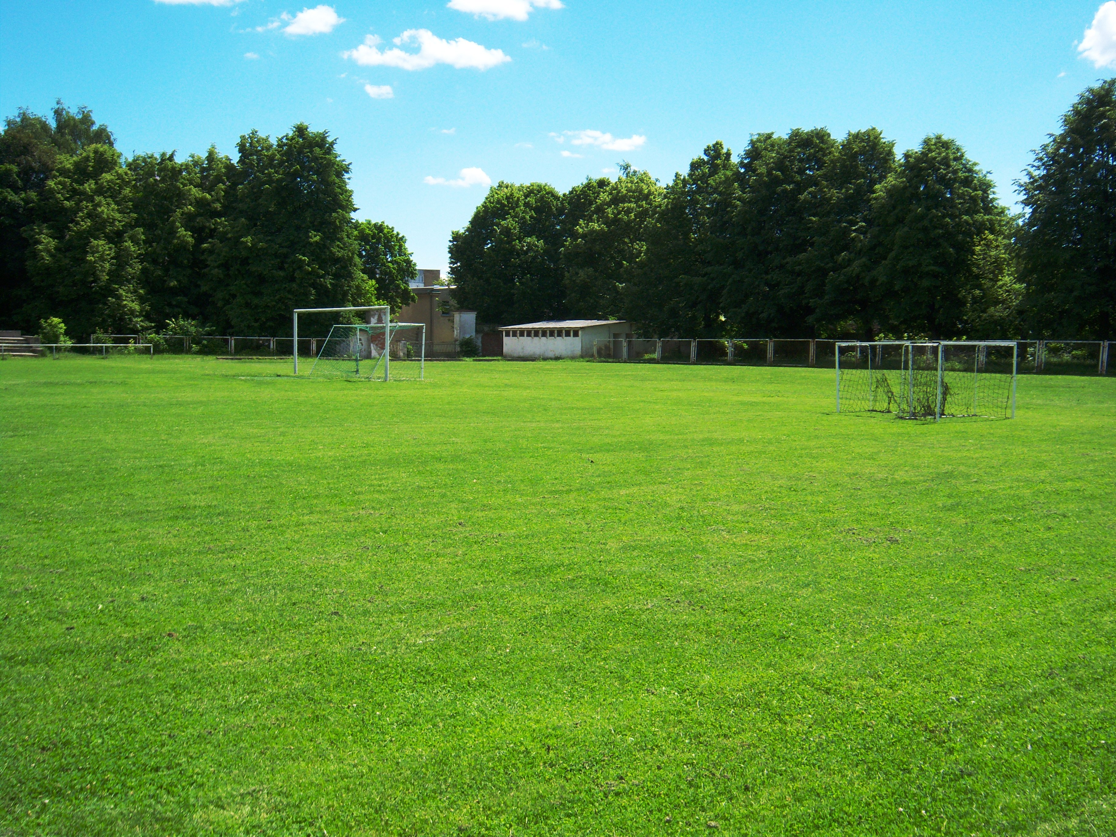 Football stadium of Inkaras, Kaunas, Lithuania